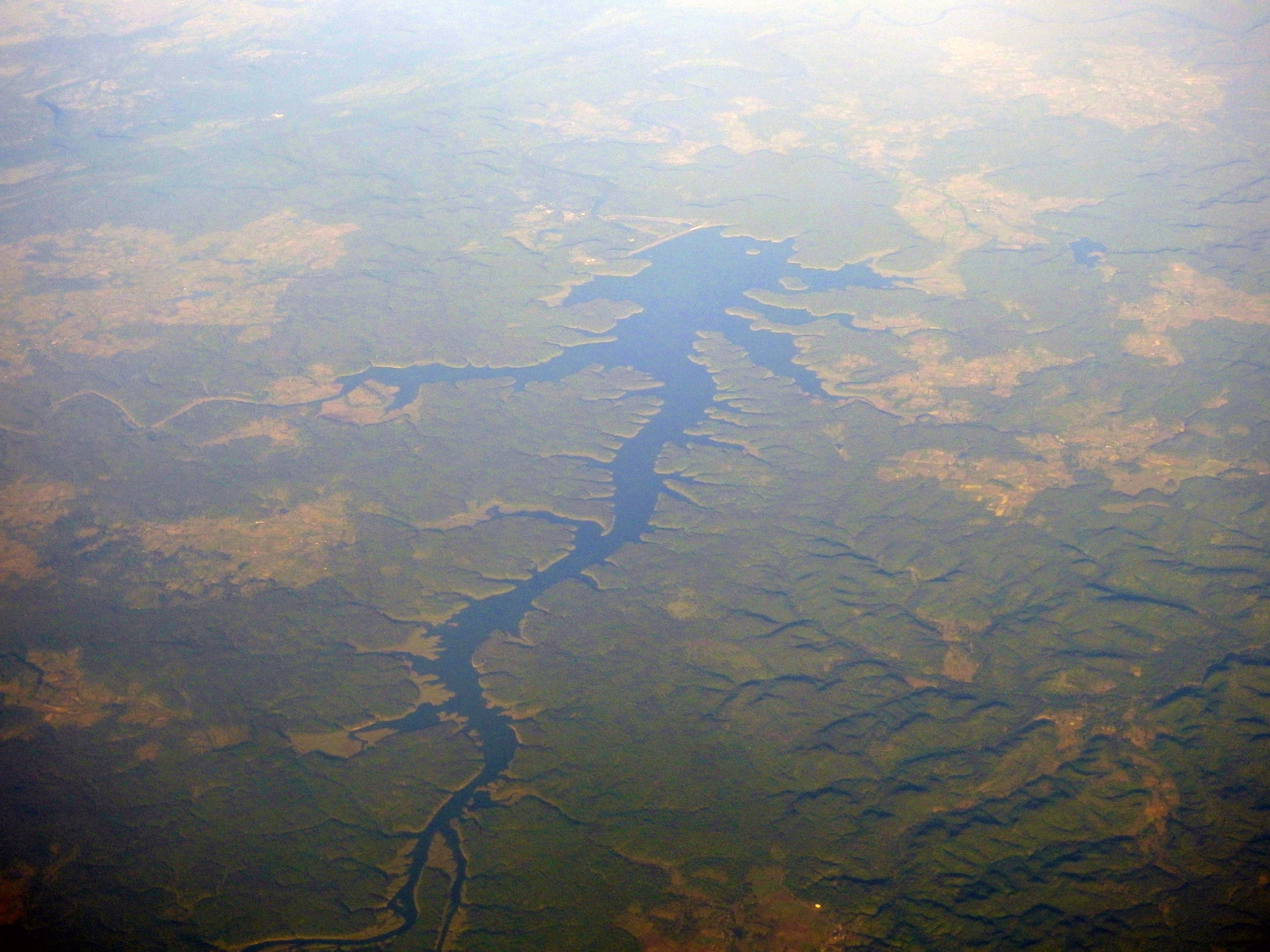 The Kolar Reservoir, formed by the Kolar Dam built across the Kolar River in Madhya Pradesh.